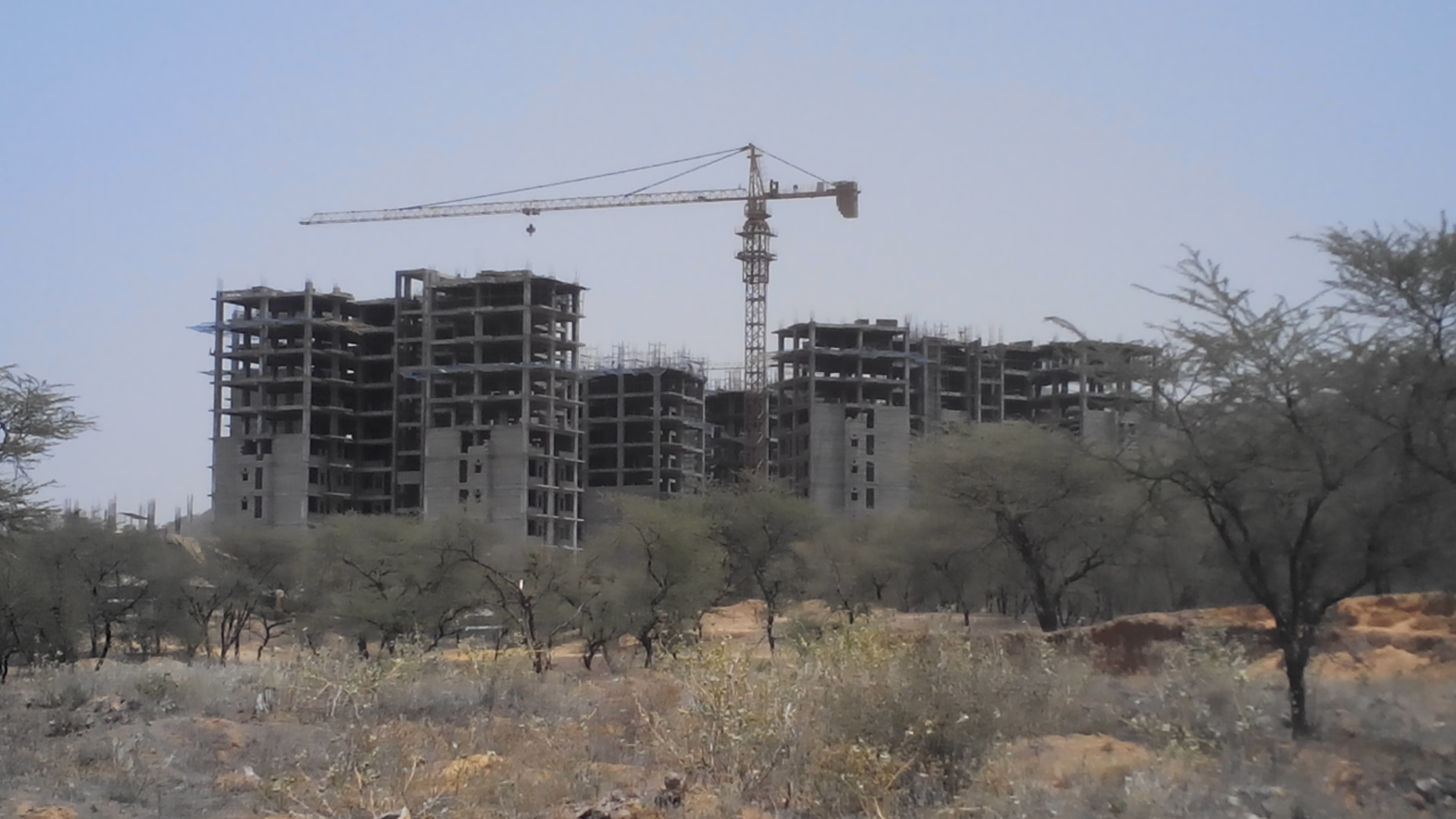 Malaviya National Institute of Technology Campus